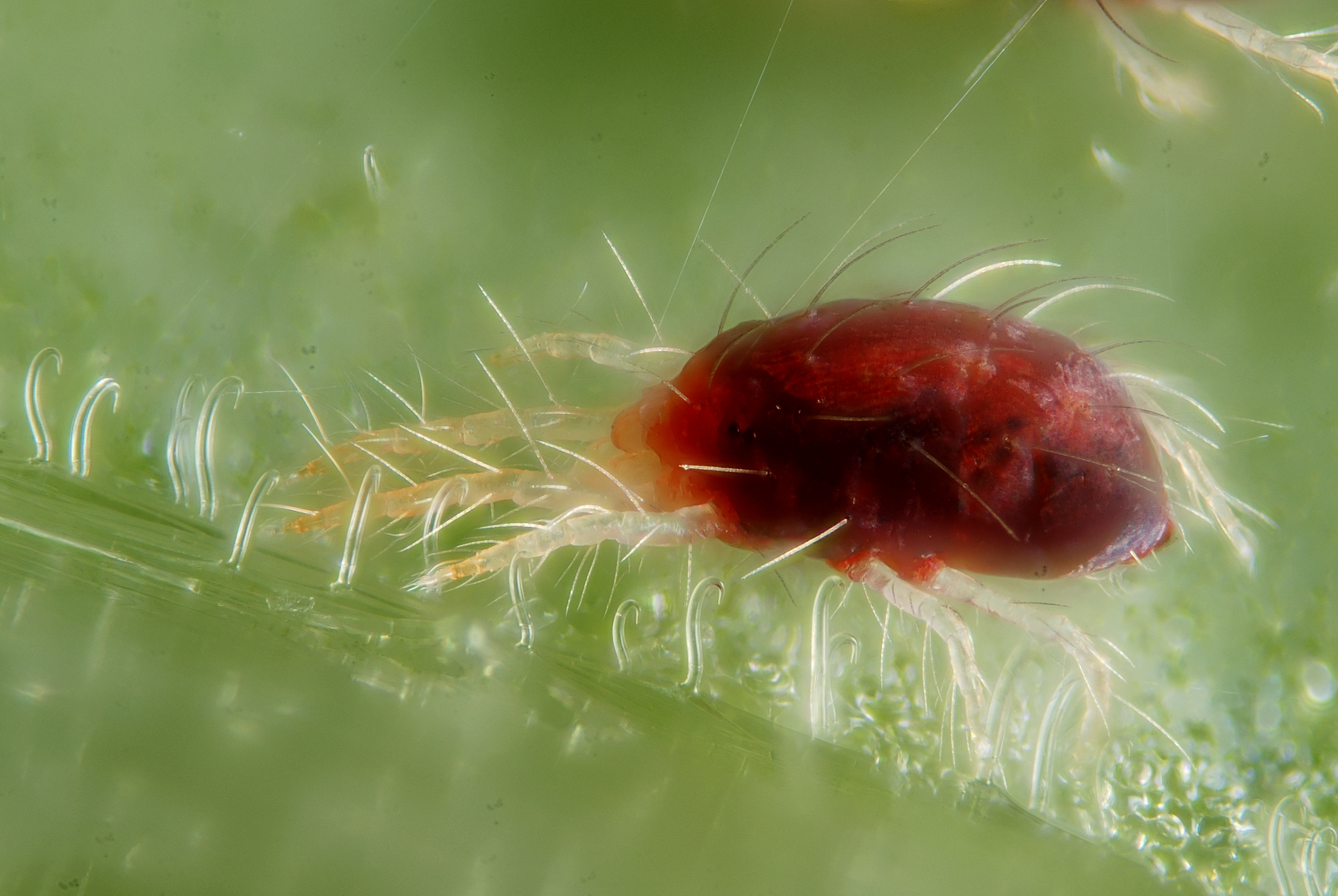 Female of the red form of the spider mite Tetranychus urticae with two silk threads. The substratum is a bean leaf. Keywords : mite acari Tetranychidae "red spider mite" "two spotted spider mite" "tetranyche tisserand" arachnida Tetranychus urticae Scale : mite body length ~0.5 mm Technical settings : - focus stack of 39 images - microscope objective (Nikon achromatic 10x 160/0.25) on bellow (230 mm extension)